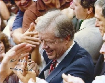 Jimmy Carter - Oct 1980 - Lakeland, Florida